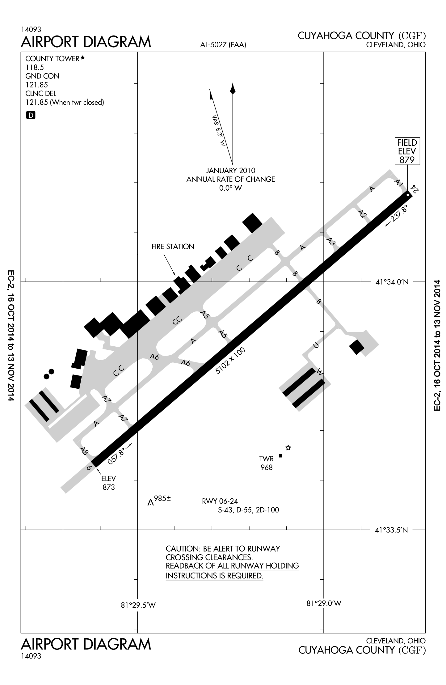 FAA airport diagram for Cuyahoga County Airport (CGF) in Cuyahoga County, Ohio, United States.